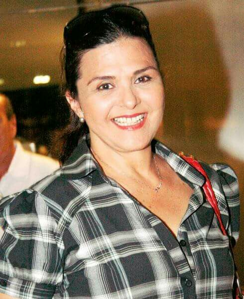 Atriz brasileira